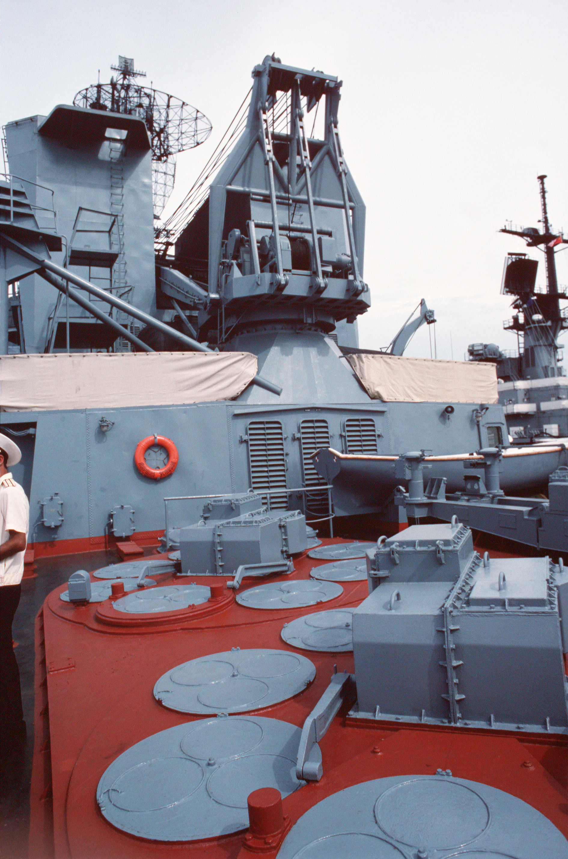 A view of the deck area housing the SA-N-6 vertical missile launchers on the Slava Class Guided Missile Cruiser MARSHAL USTINOV (CG 088). MARSHAL USTINOV, the Guided Missile Destroyer OTLICHNYY (DDG 434) and the Oiler GENRIKH GASANOV are making the first-ever Soviet naval visit to a US military port. Location: NAVAL BASE, NORFOLK, VIRGINIA (VA) UNITED STATES OF AMERICA (USA)